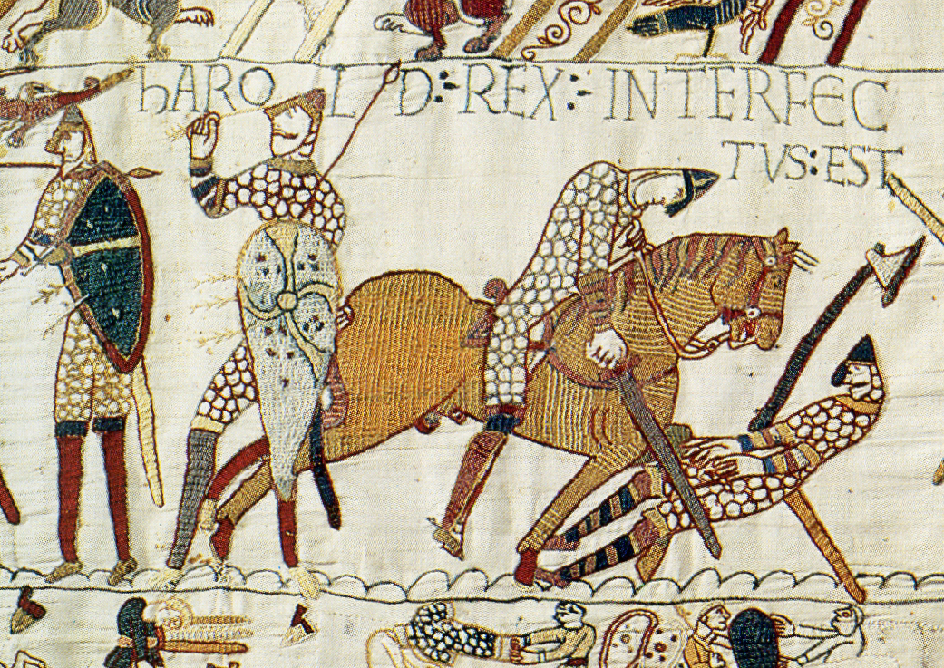 Harold Godwinson falls at Hastings. Harold was struck in the eye with an arrow (left), slain by a mounted Norman knight (right) or both.